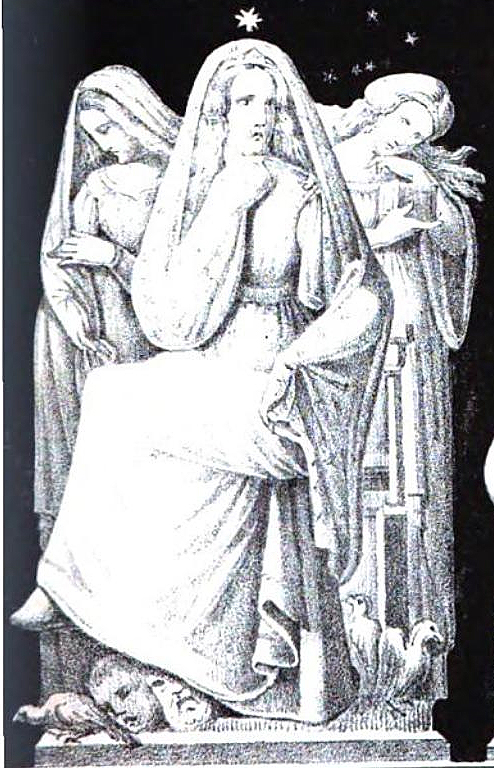 The caption for this illustration reads "Frigga". The artist is uncredited. A higher quality version of this file would be most welcome as this was taken from a low quality scan found in a PDF version of the book.